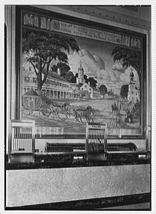 Title: Jamaica Savings Bank, Sutphin Blvd. and Jamaica Ave., Jamaica, New York. Abstract/medium: Gottscho-Schleisner Collection (Library of Congress) Physical description: 1 negative